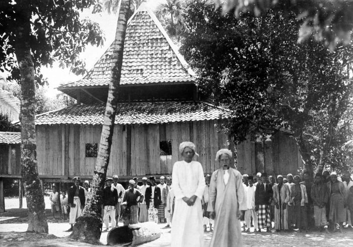 Mosque at Muarakumpe